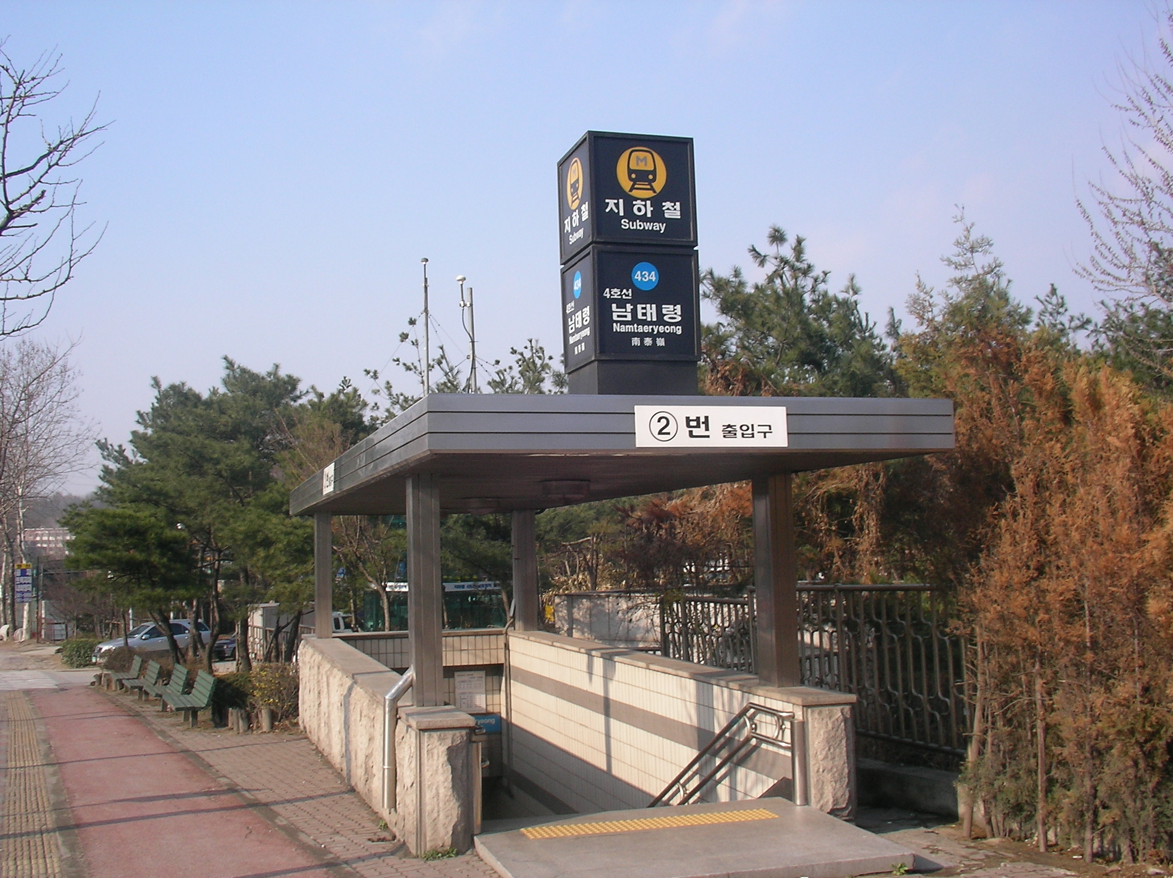 Namtaeryeong Station 2 Exit in Seoul Subway Line 4